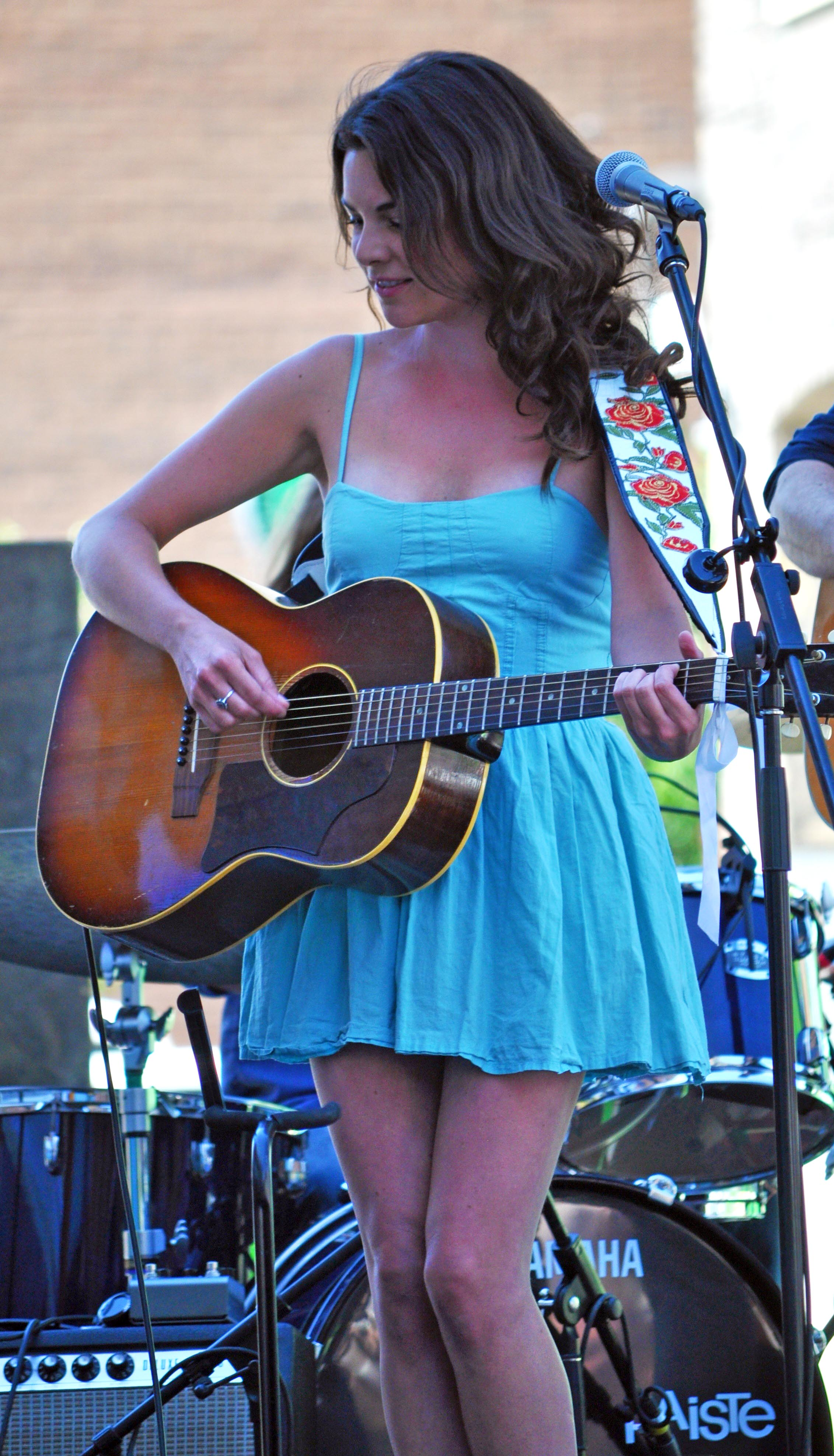 Whitney Rose at NXNE in Toronto in 2014